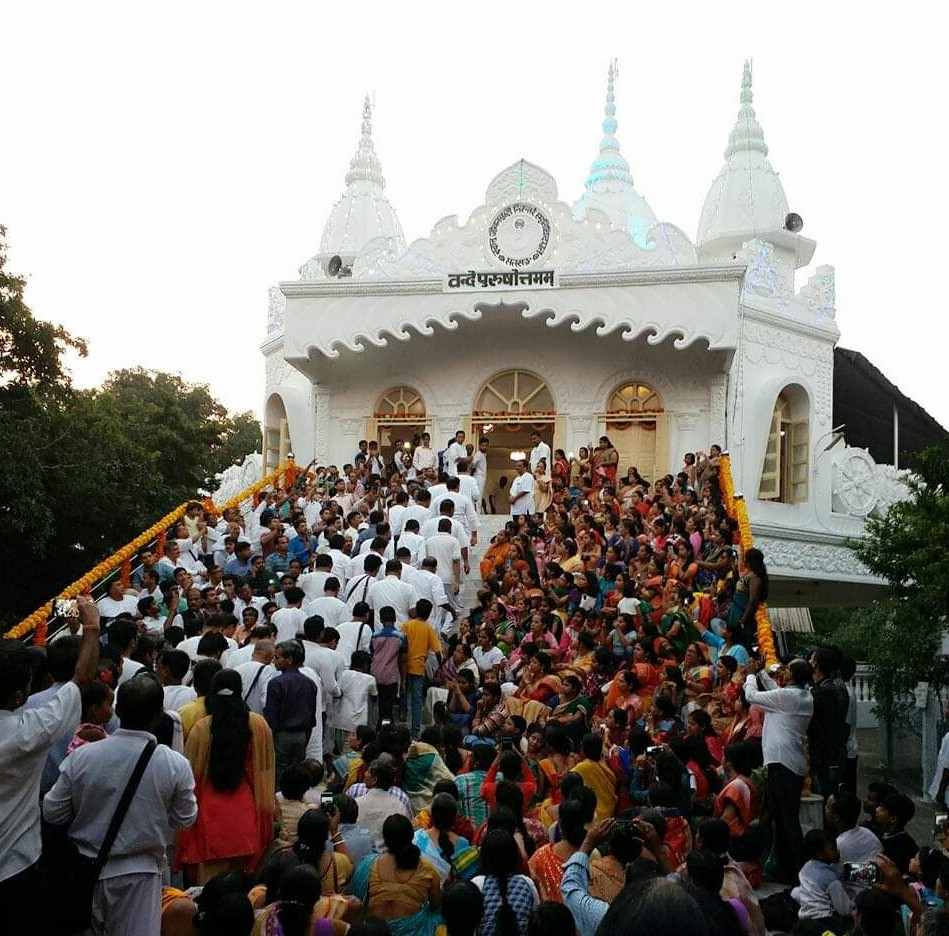 Satsang Vihar Badlapur, Mumbai, Maharashtra